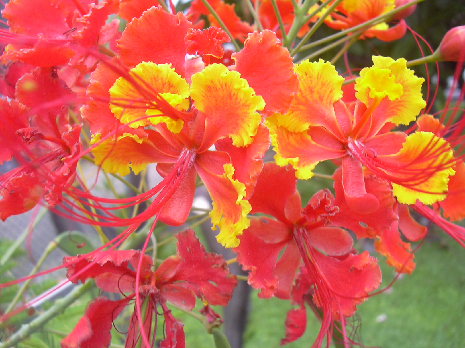 Caesalpinia pulcherrima — Dwarf poinciana, flowers. Location: Kahului, Maui, Hawaii (introduced species).